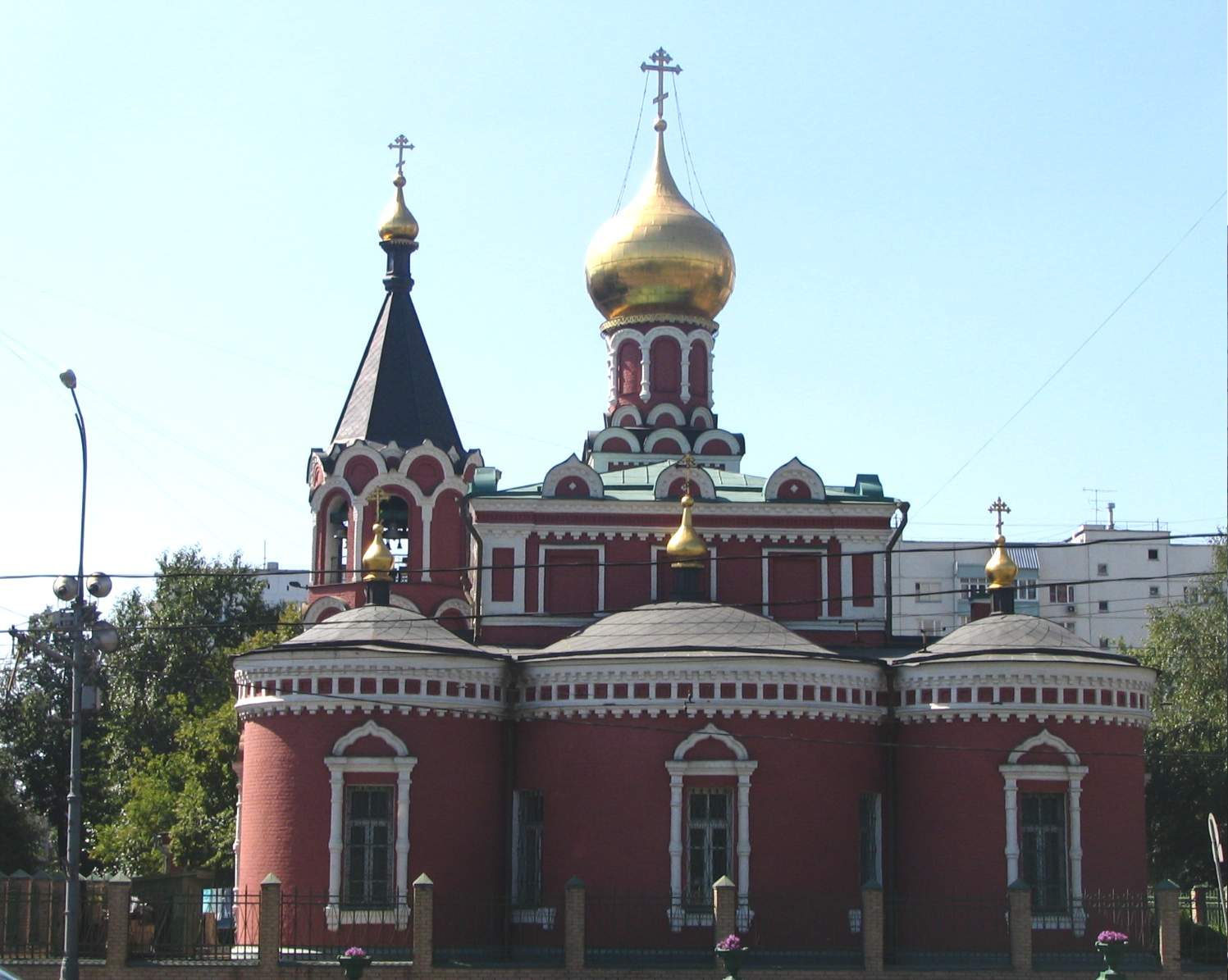 Ortodox church "Nechayannaya radost", Sheremetyevskaya_street_Moscow.